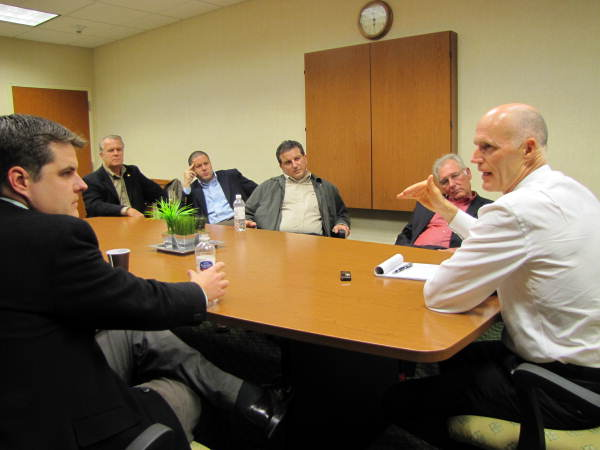 Accompanying note: "Scott toured the state with a goal of meeting every state lawmaker prior to his Jan. 4, 2011, inauguration. At the far-Panhandle meeting were Rep. Matt Gaetz, R-Fort Walton Beach, (L), and (far side of the table, L-R) Reps. Doug Broxson, R-Gulf Breeze, Brad Drake, R-DeFuniak Springs, Jimmy Patronis, R-Panama City, and Sen. Greg Evers, R-Baker, closest to the new governor."